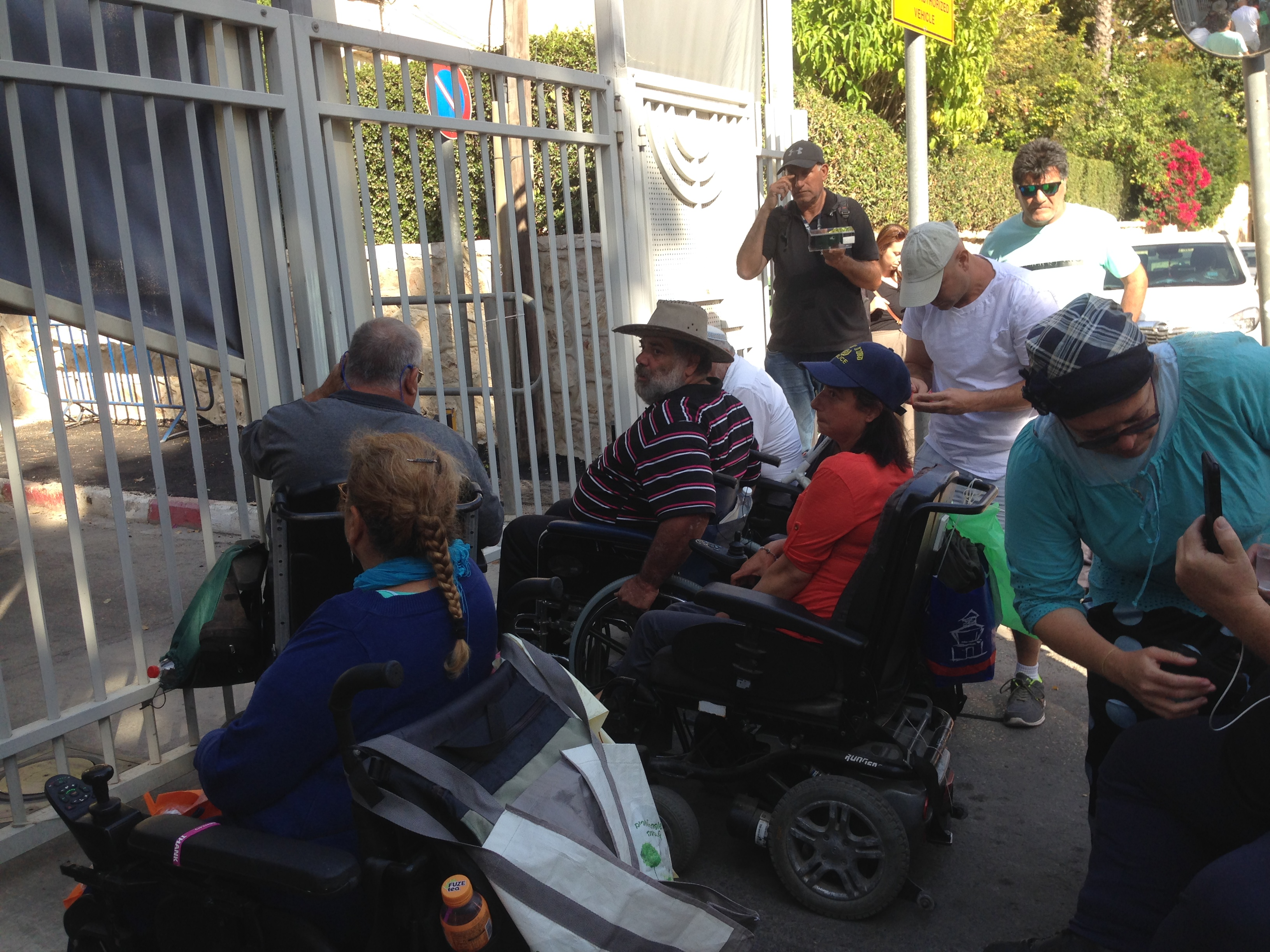 Blocking the entrance to the Prime Minister's Residence in Jerusalem by Disabled Israelis, in their battle for equalizing the disability pension to the minimum wage. In October 2017, a full disability pension was 2,342 ILS. The minimum wage in this month was 5,000 ILS, and in December 2017 it increased to 5,300 ILS per month.